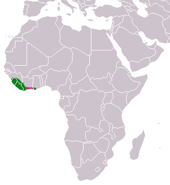 Johnston's Genet (Genetta johnstoni) range (green - extant, pink - probably extant)